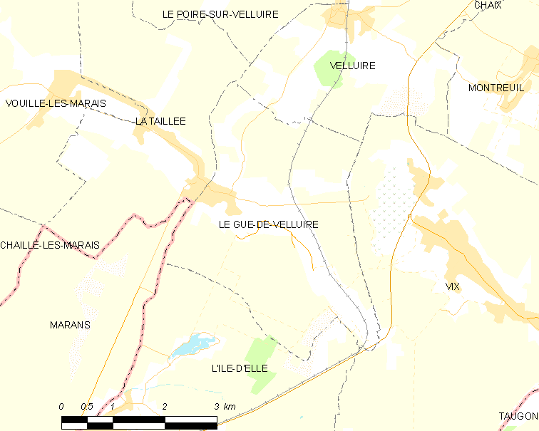 Map of French municipality Le Gué-de-Velluire